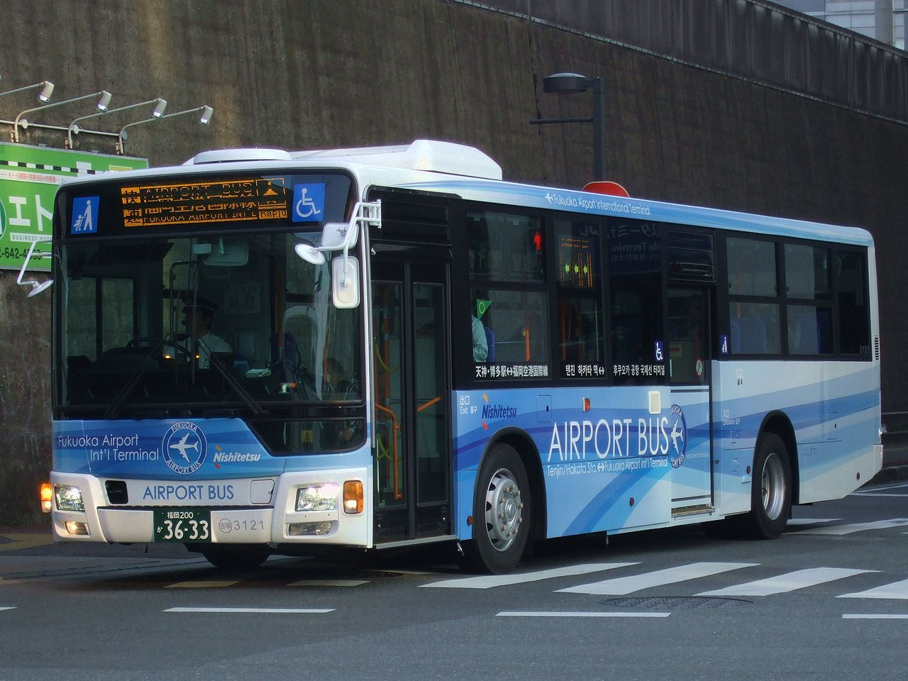 Nishitetsu bus Fukuoka Airport International Line Terminal shuttle bus Company:Nishi-Nippon Railroad Use:transit bus Belongs to:Yoshizuka Depot Car license:FOF200 KA 3633 Code:3121 Chassis manufacturer:Mitsubishi Fuso Truck and Bus Type:Aero Star Coachbuilder:Mitsubishi Fuso Bus Manufacturing Location:in Hakata Ward, Fukuoka City, Fukuoka, Japan.